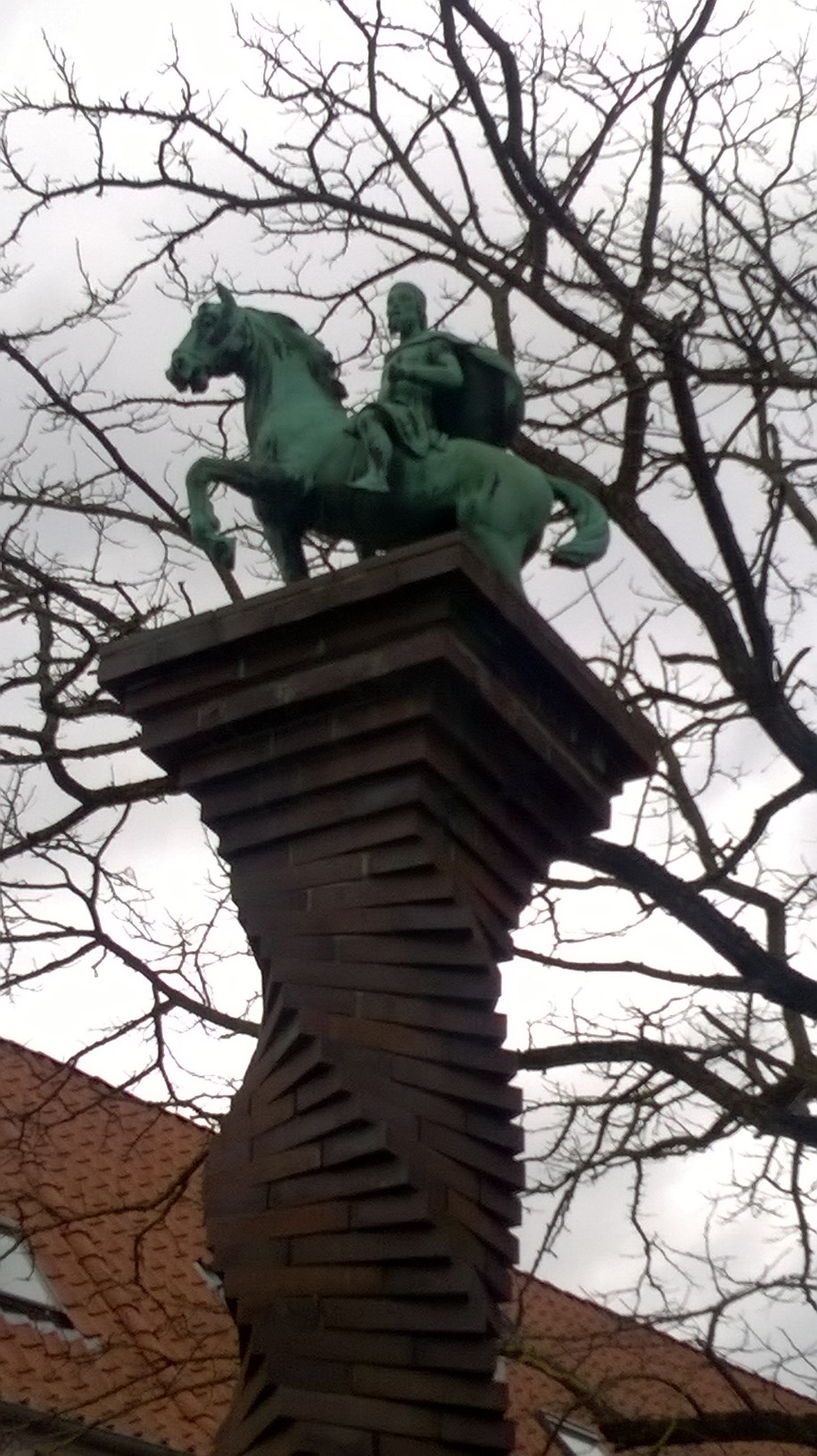 The smallest equestrain in Denmark. Located at Hjultorvet (Wheel Square).